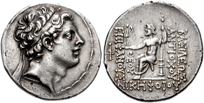 Antiochos IV Epiphanes